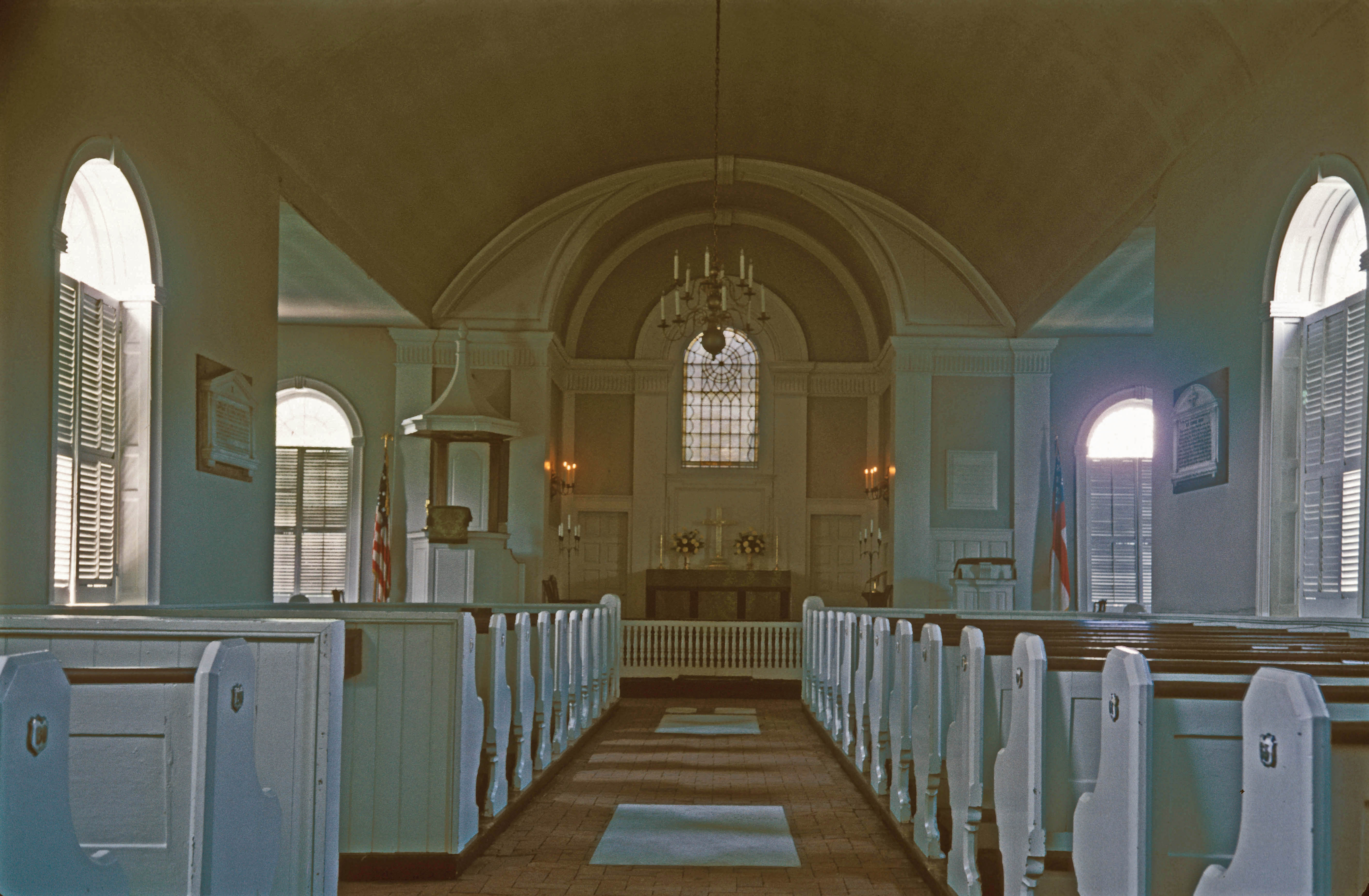 MOTHER CHURCH OF THE EPISCOPAL DIOCESE; FOUNDED IN 1689 AND BUILT IN 1703; CEMETERY CONTAINS THE GRANDFATHER OF BETSY ROSS’ HUSBAND